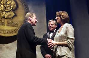 Ray Dolby (left) is inducted into the National Inventors Hall of Fame. NIHF president Rick Nydegger is center; United States Patent Office's Anne Chasser is right.